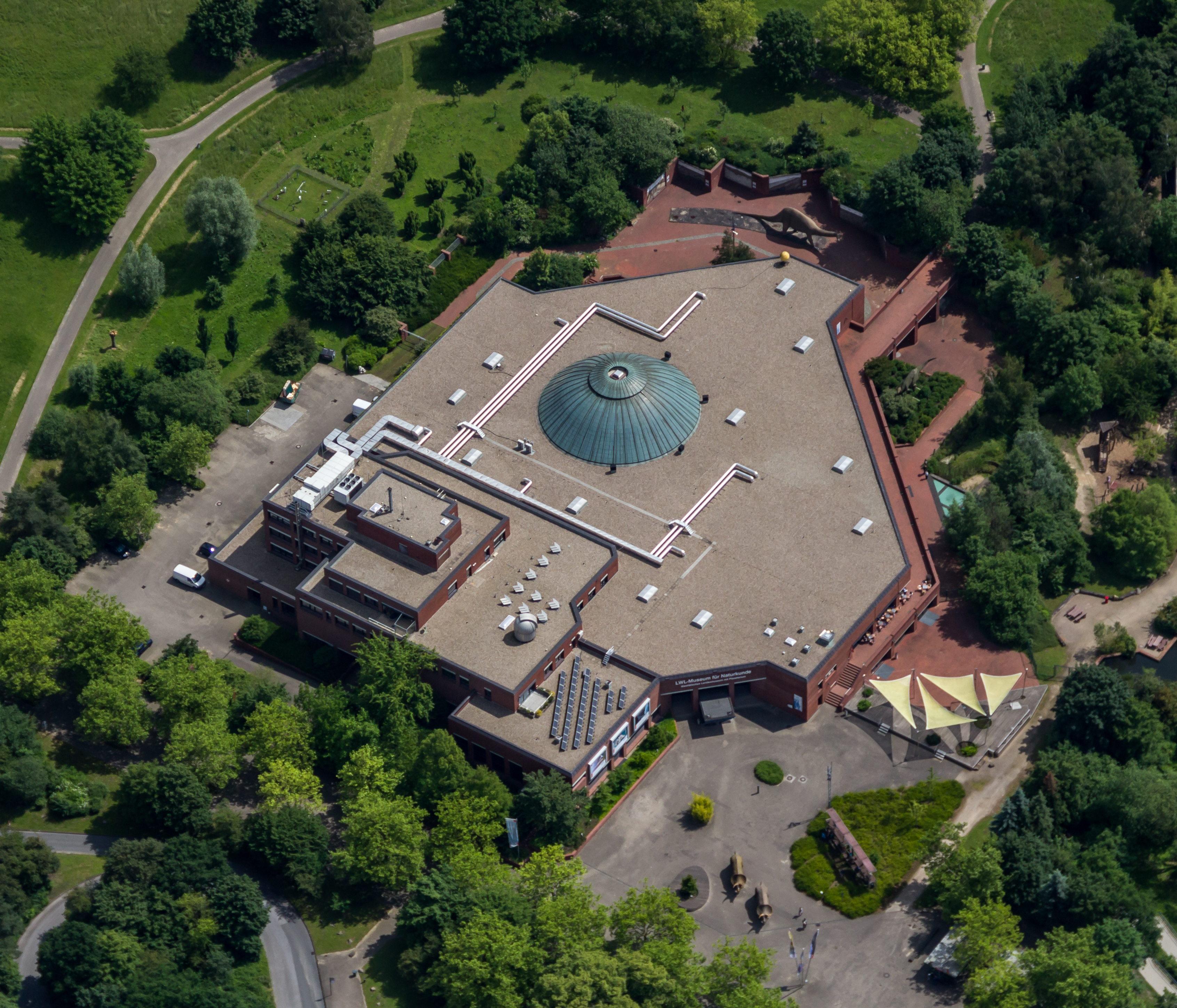 LWL-Museum für Naturkunde, Münster, North Rhine-Westphalia, Germany